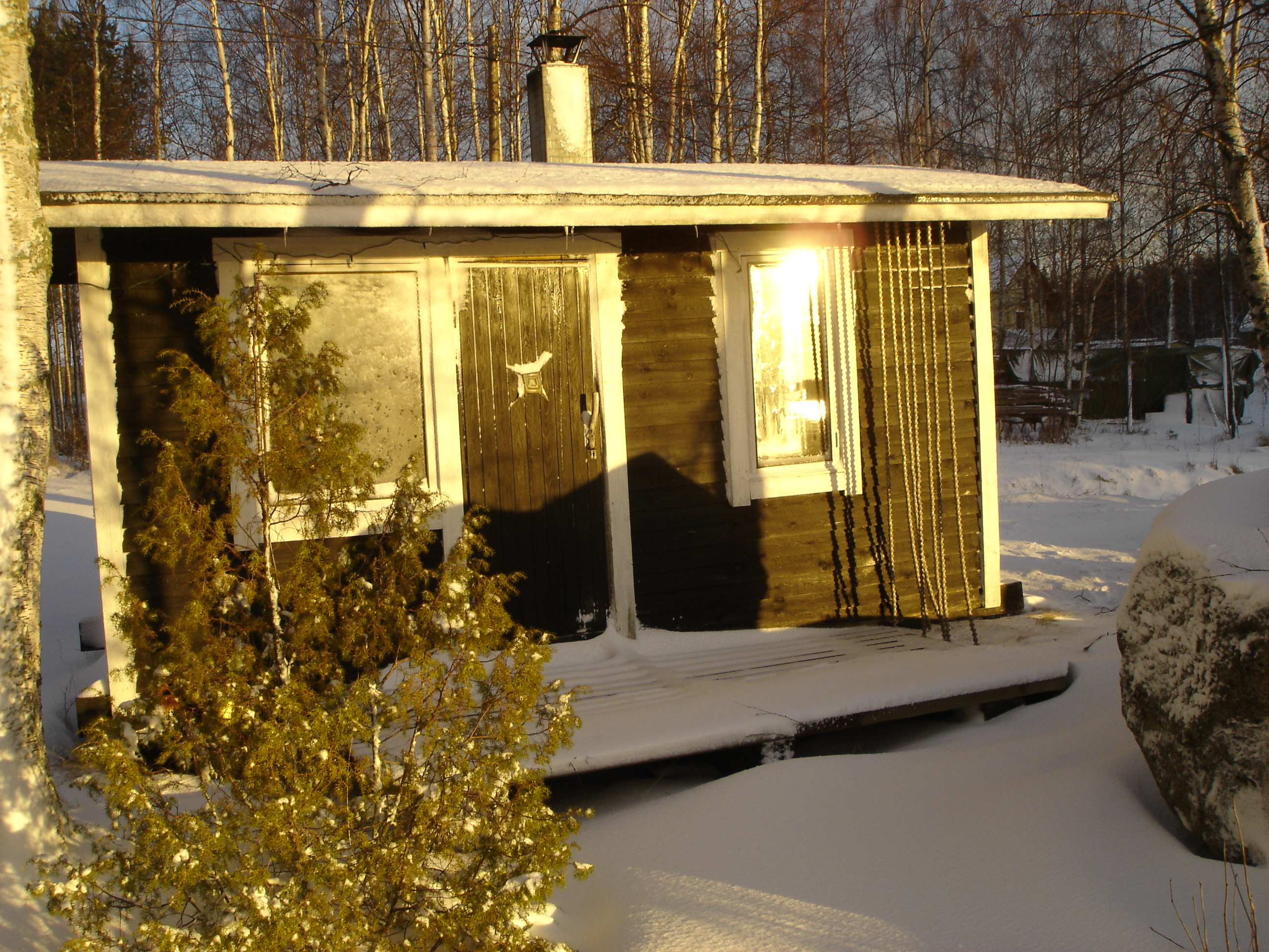 A Finnish wood-heated sauna at wintertime at Korpilahti